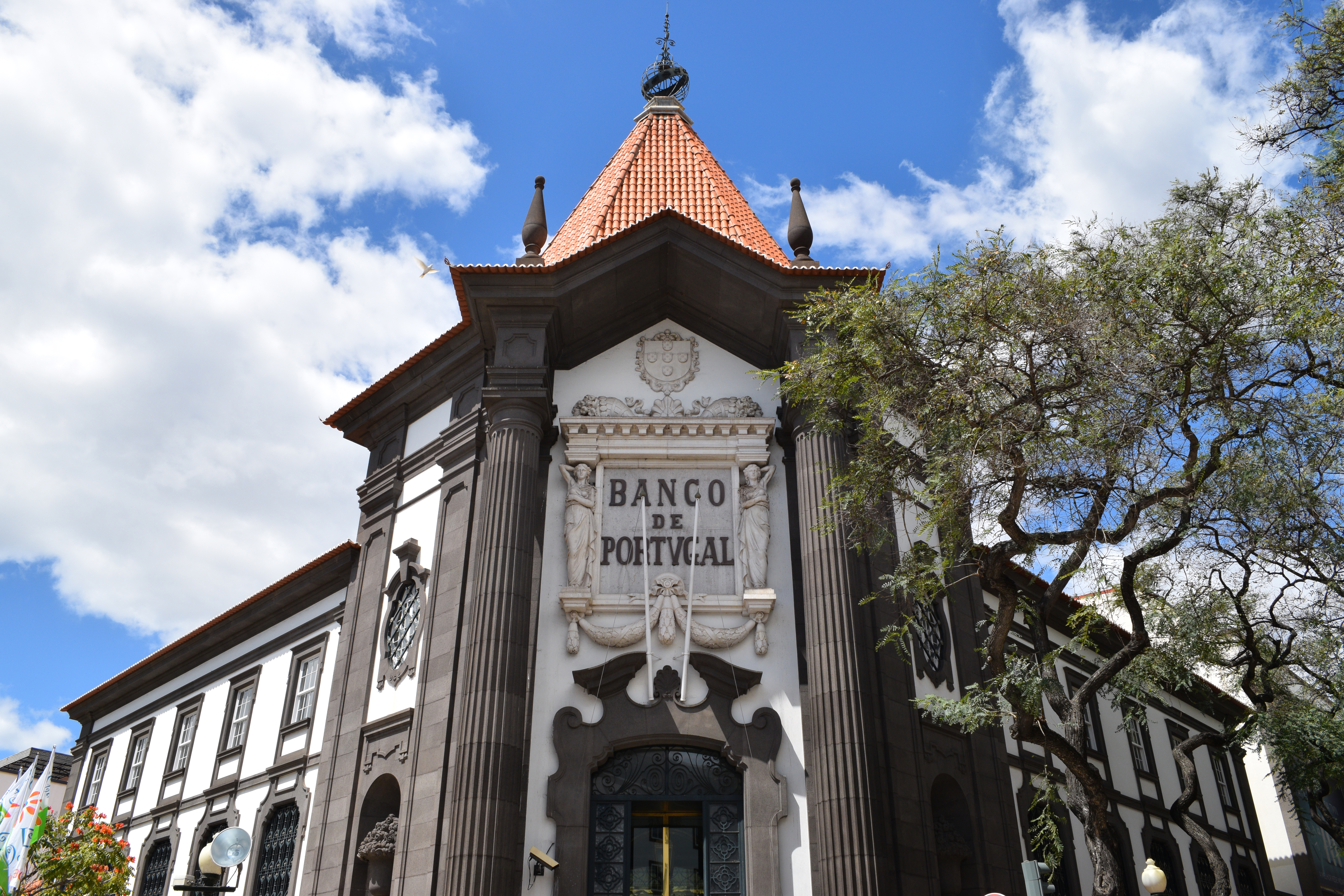 Banco de Portugal (Madeira)